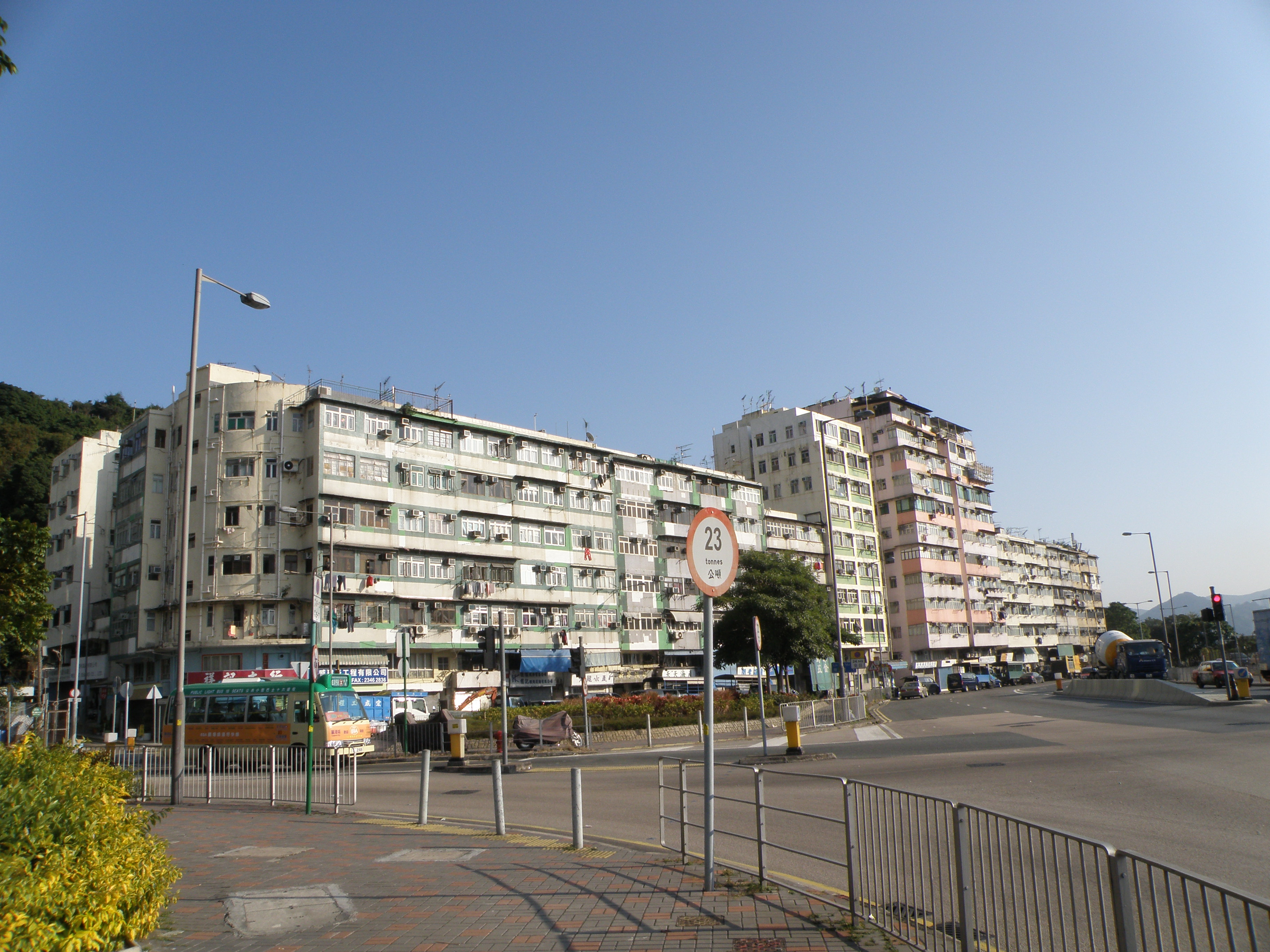 Cha Kwo Ling in Lam Tin, Hong Kong.